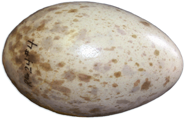 Egg of Whooping Crane (Grus americana)